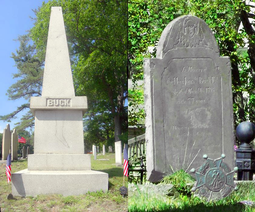 Composite image of the two grave markers of Col. Jonathan Buck (1719-1795), the founder of Bucksport, ME.